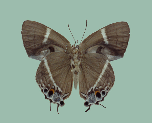 Dacalana irmae, male, underside